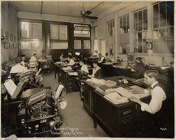 General Office, Elmer Candy Co. Inc., New Orleans, photograph by Covert, 1917. At the right are two Burroughs bookkeeping machines. Per 1918 Soards City Directory of New Orleans: 544 Magazine Street.